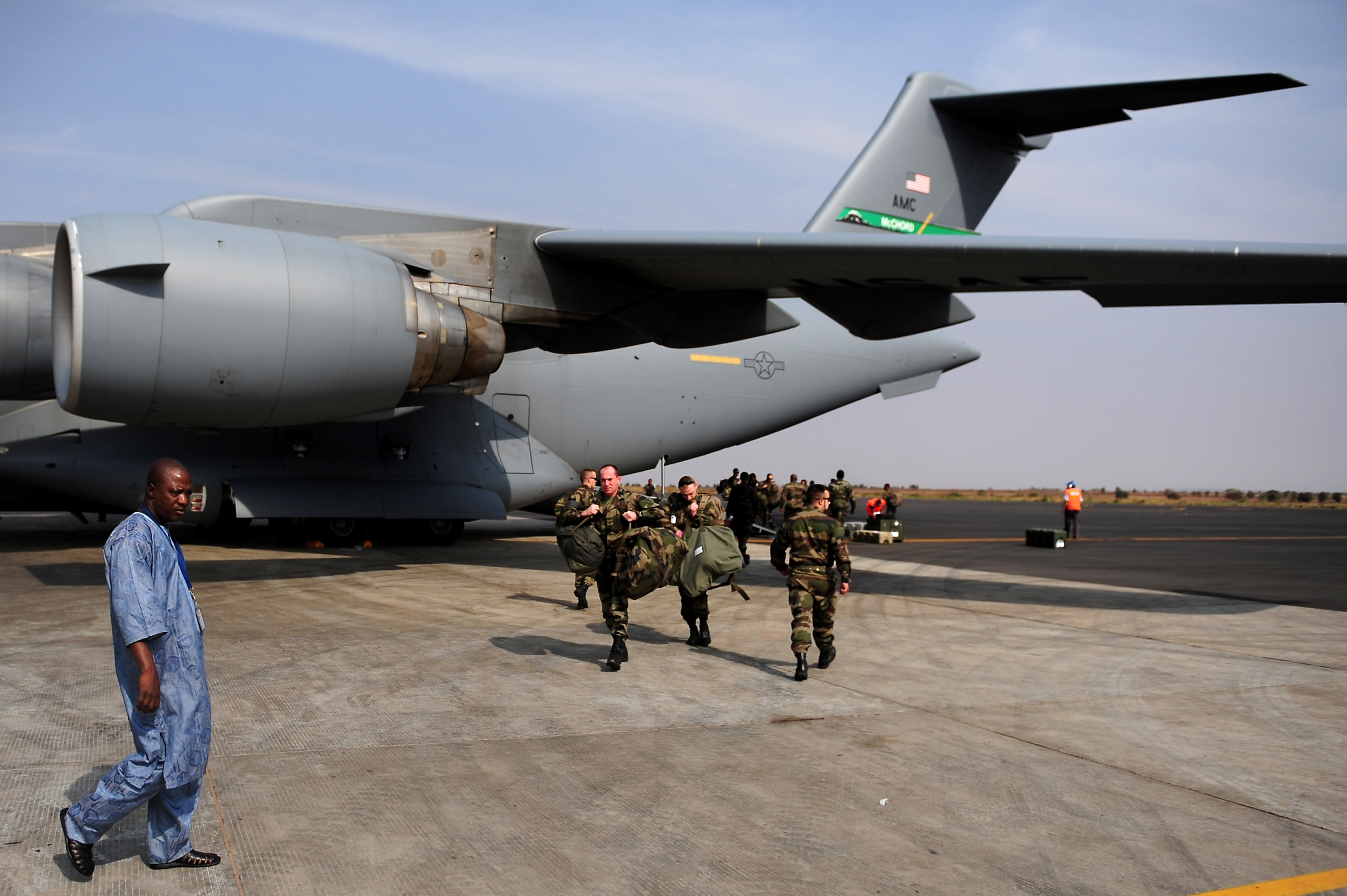 In this photo, French soldiers leave a U.S. Air Force C-17 Globemaster III in Bamako, Mali, Jan. 23, 2013.